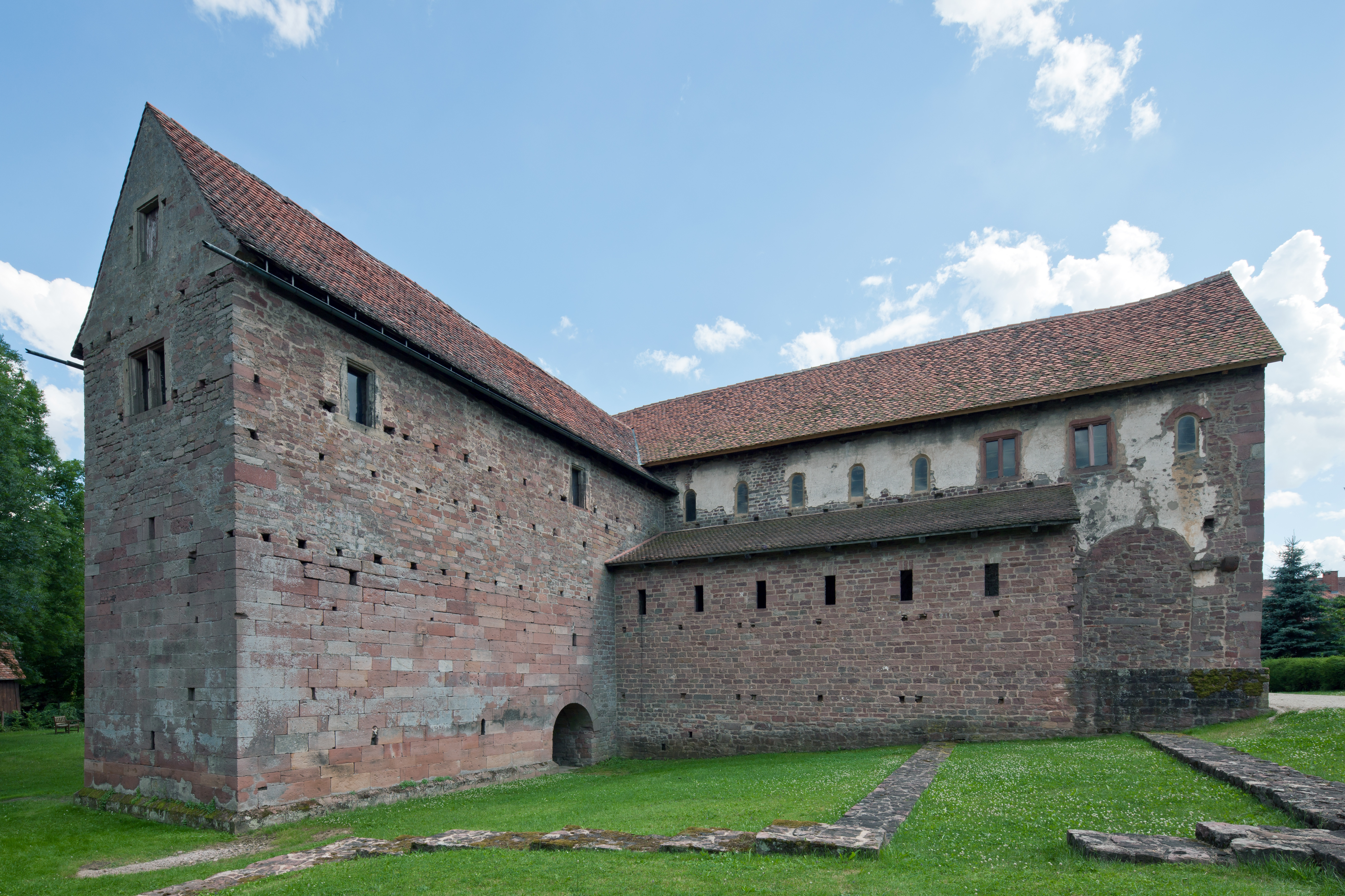 Michelstadt-Steinbach: Einhardsbasilika (Einhard Basilica) as seen from the northwest